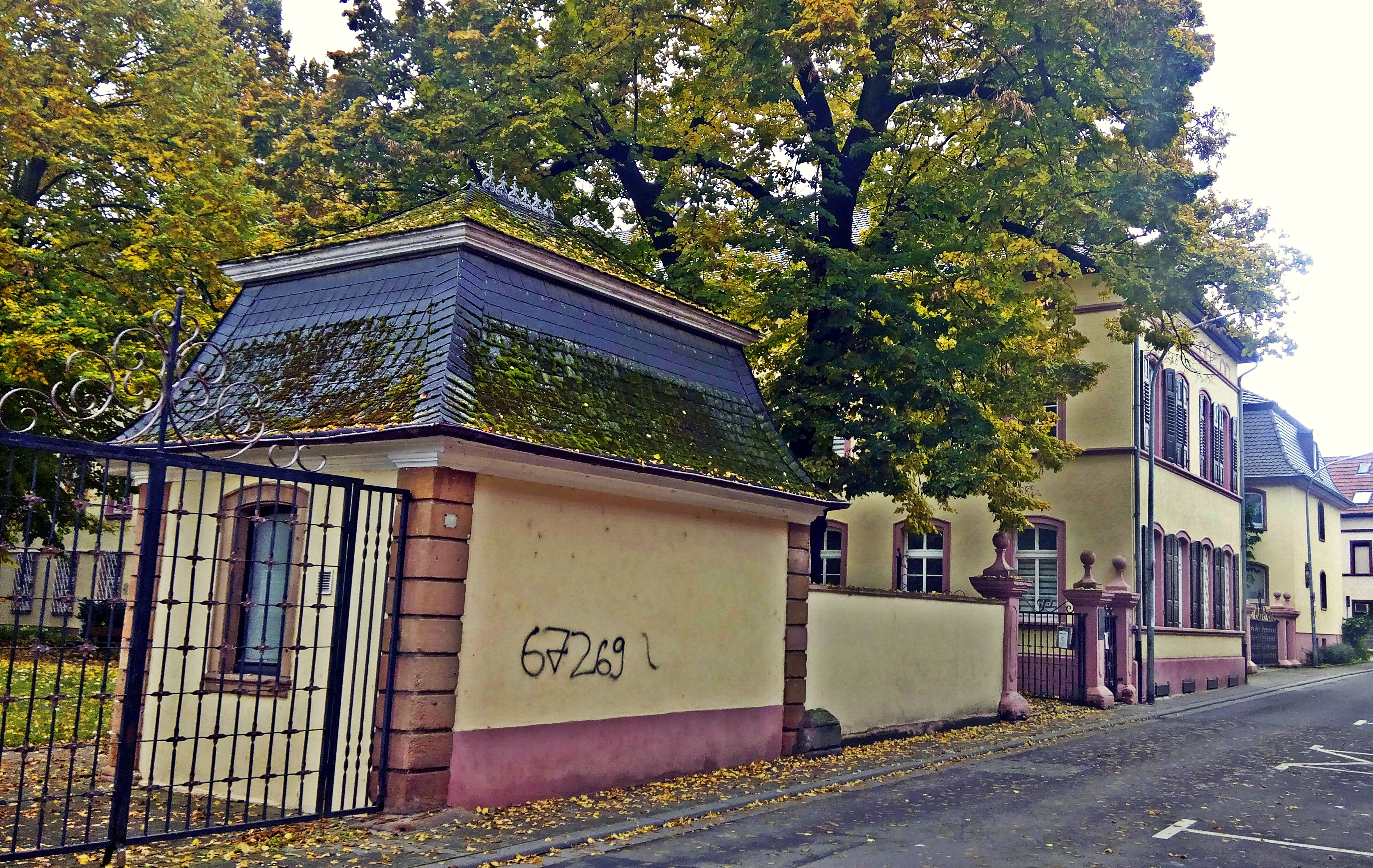 Schloss Unterhof, Grünstadt